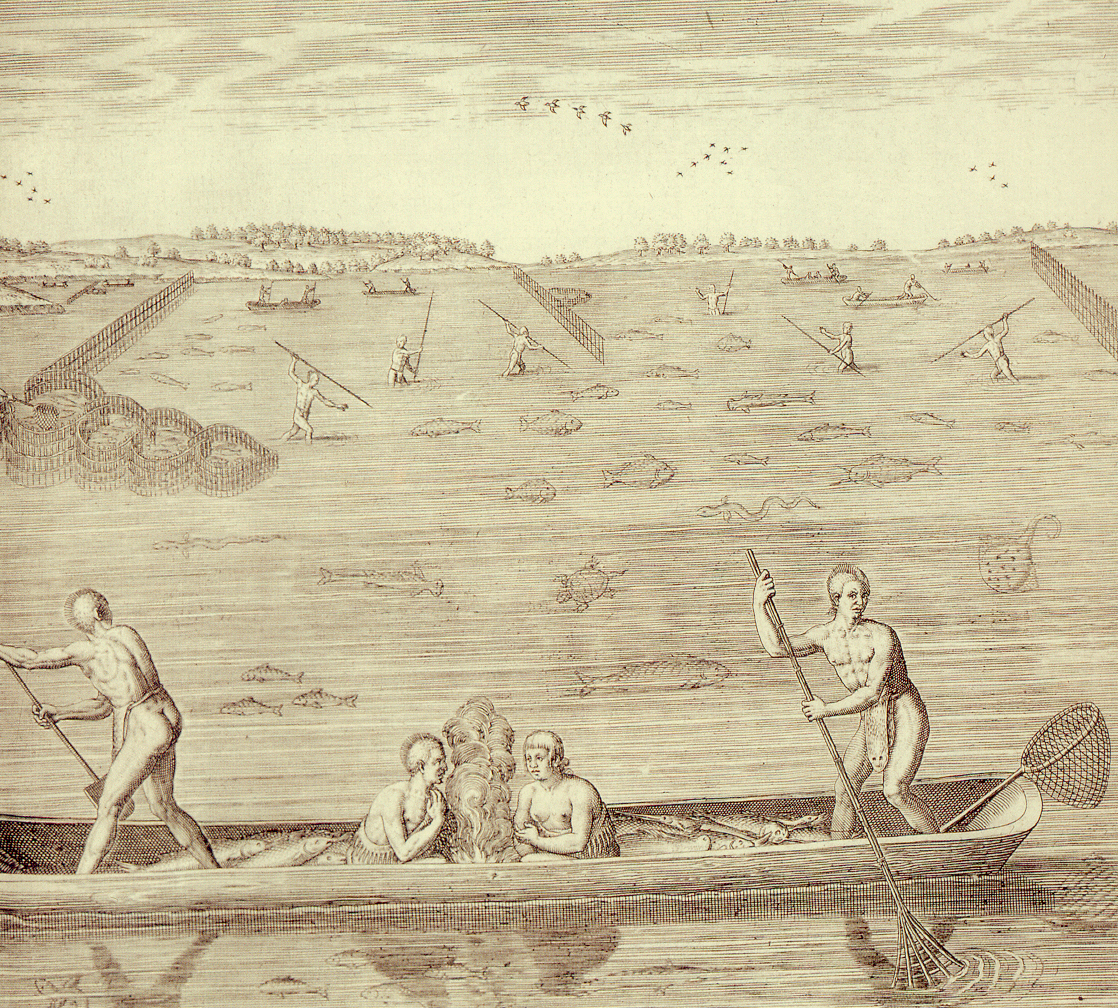 Methods of fishing of the North Carolina Algonquins. Engraving by Thedor de Bry after a watercolour by John White.